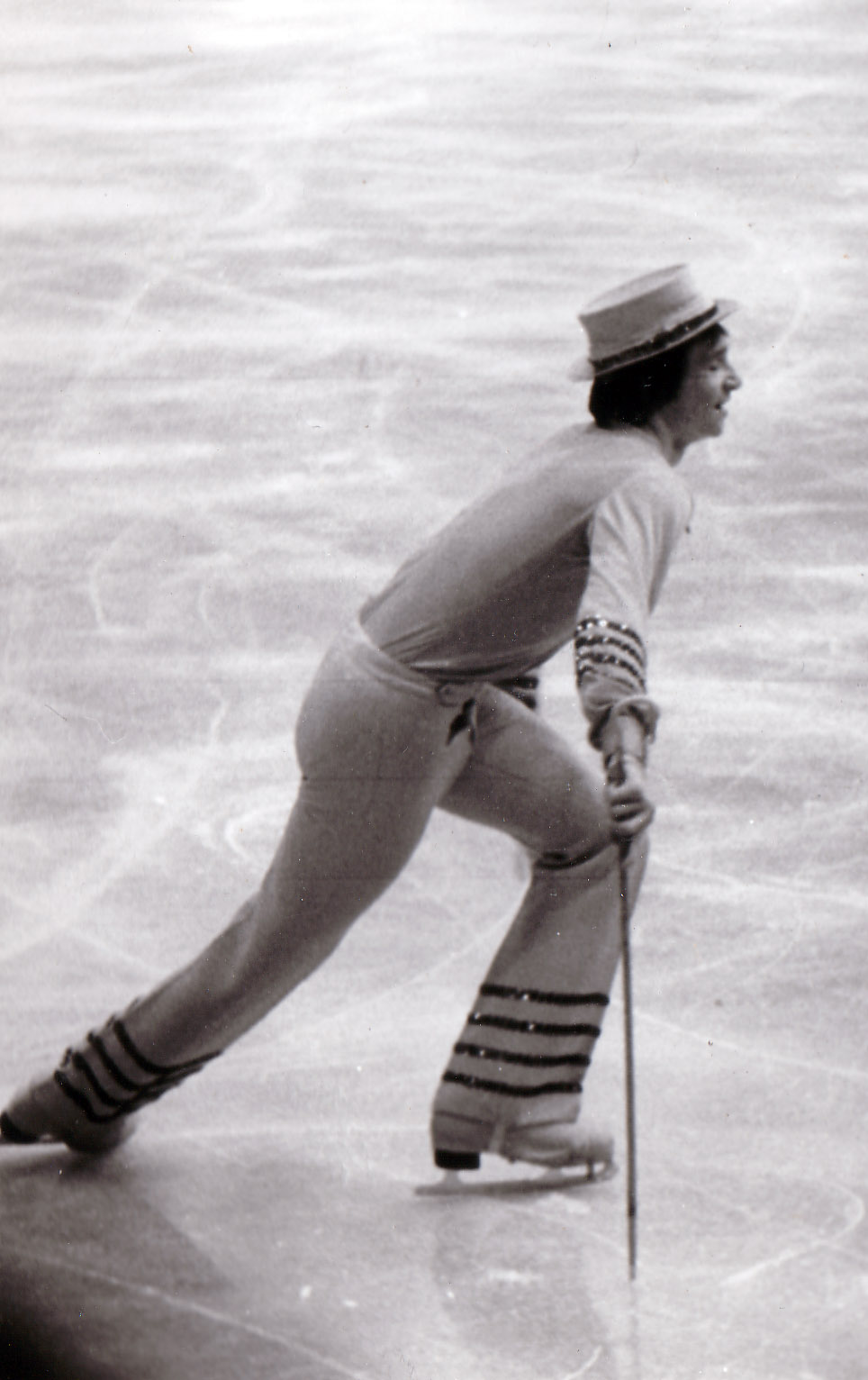 East German figure skater Jan Hoffmann.